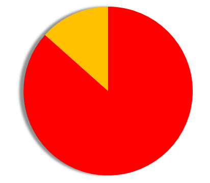 Expressed as a pie chart in the Tochigi gubernatorial election in 2012, the number of votes for each candidate.